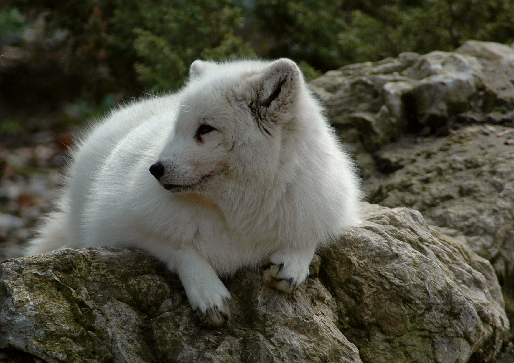 Eisfuchs (Alopex lagopus) Source: Marcel Burkhard